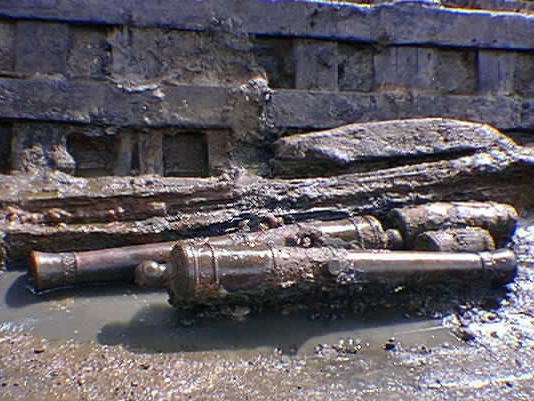 This photograph was taken in February 1997 at the site of the Belle shipwreck. This sunken vessel was discovered by the Texas Historical Commission in 1995 and fully excavated by the THC in 1996-1997 after building a cofferdam around it in order to drain away the ambient seawater. This image shows two bronze cannon in place at the bottom of the hold on the starboard side. Also visible are a few wooden barrels of gunpowder (to the right of the guns), and a large stack of iron bar stock (behind the cannons). These guns were ornately decorated and were identical to the first gun discovered on the wreck in 1995, which lead to the positive identification of this vessel. The Belle was the ship of French explorer La Salle which was lost in Matagorda Bay, Texas, in 1686. This photograph was taken by one of the archaeologists working on the project.